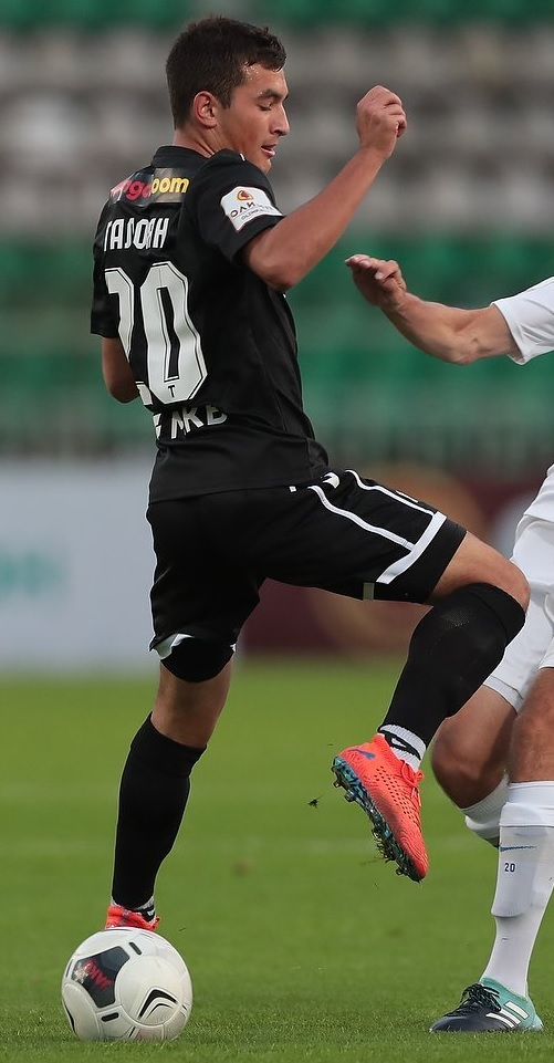 Artur Galoyan with FC Torpedo Moscow in a game against FC Avangard Kursk.